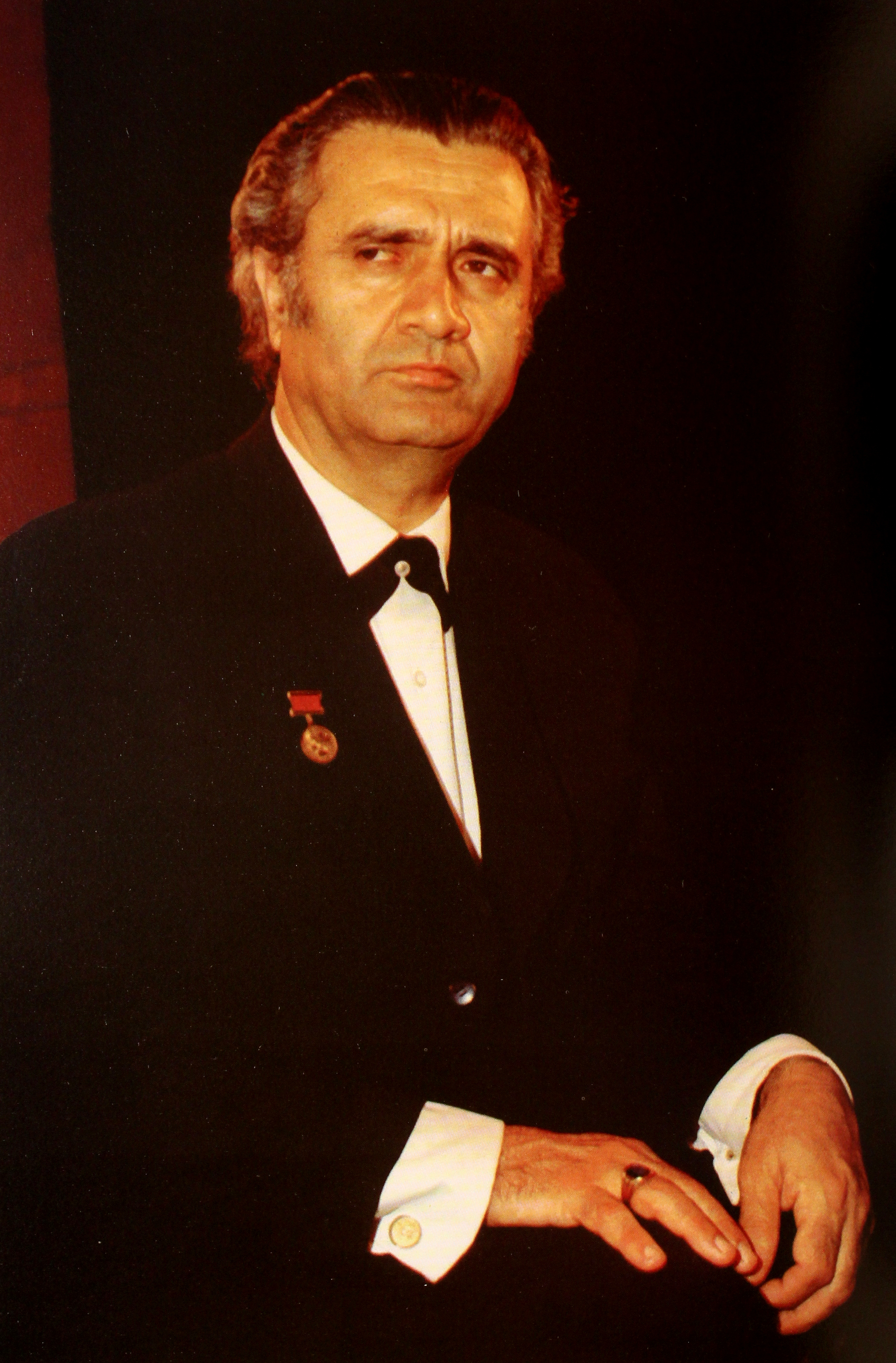 Alexander Harutyunyan